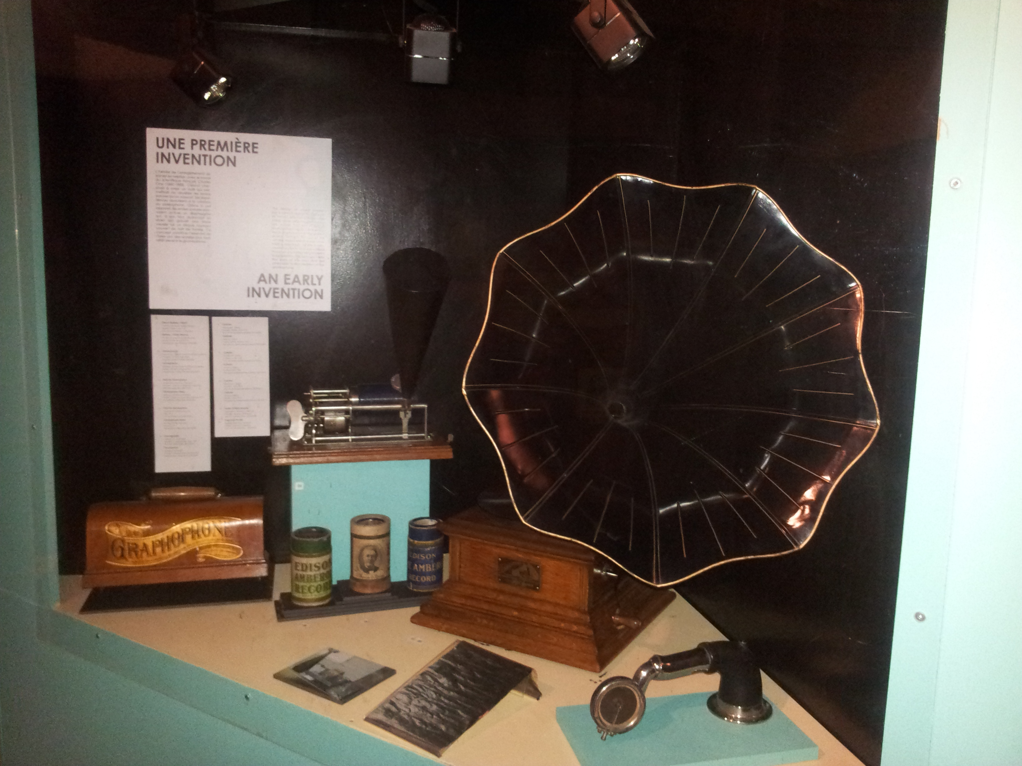 Émile-Berliner Museum display in Montreal, Quebec, with a Gramophon and an Edison invention